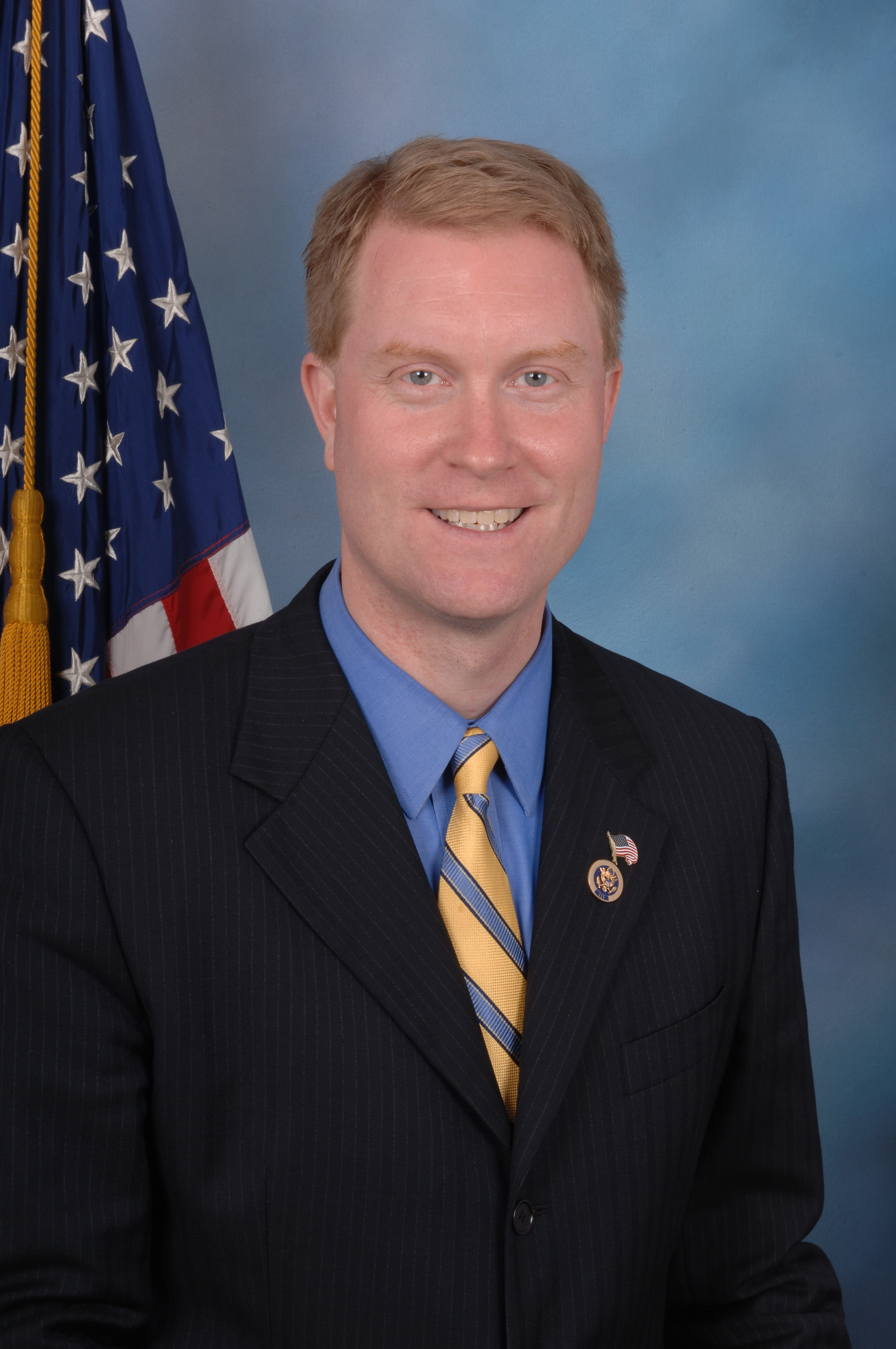 Official congressional photo of Scott Murphy